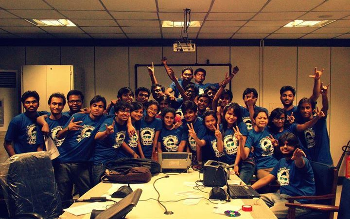 Enginerds '13 Core Team